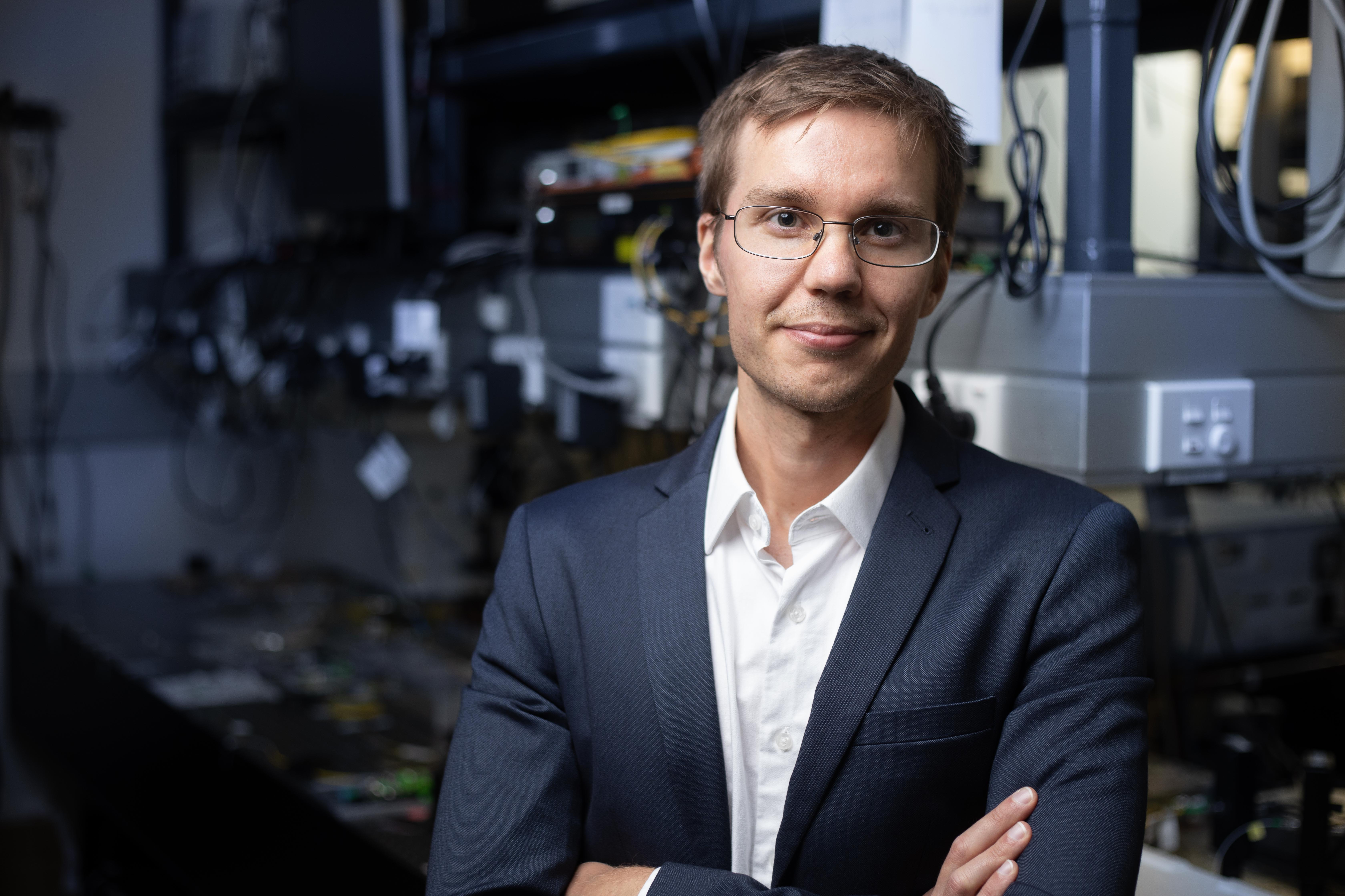 Erkintalo, winner of the Prime Minister's MacDiarmid Emerging Prize in the lab at the University of Auckland